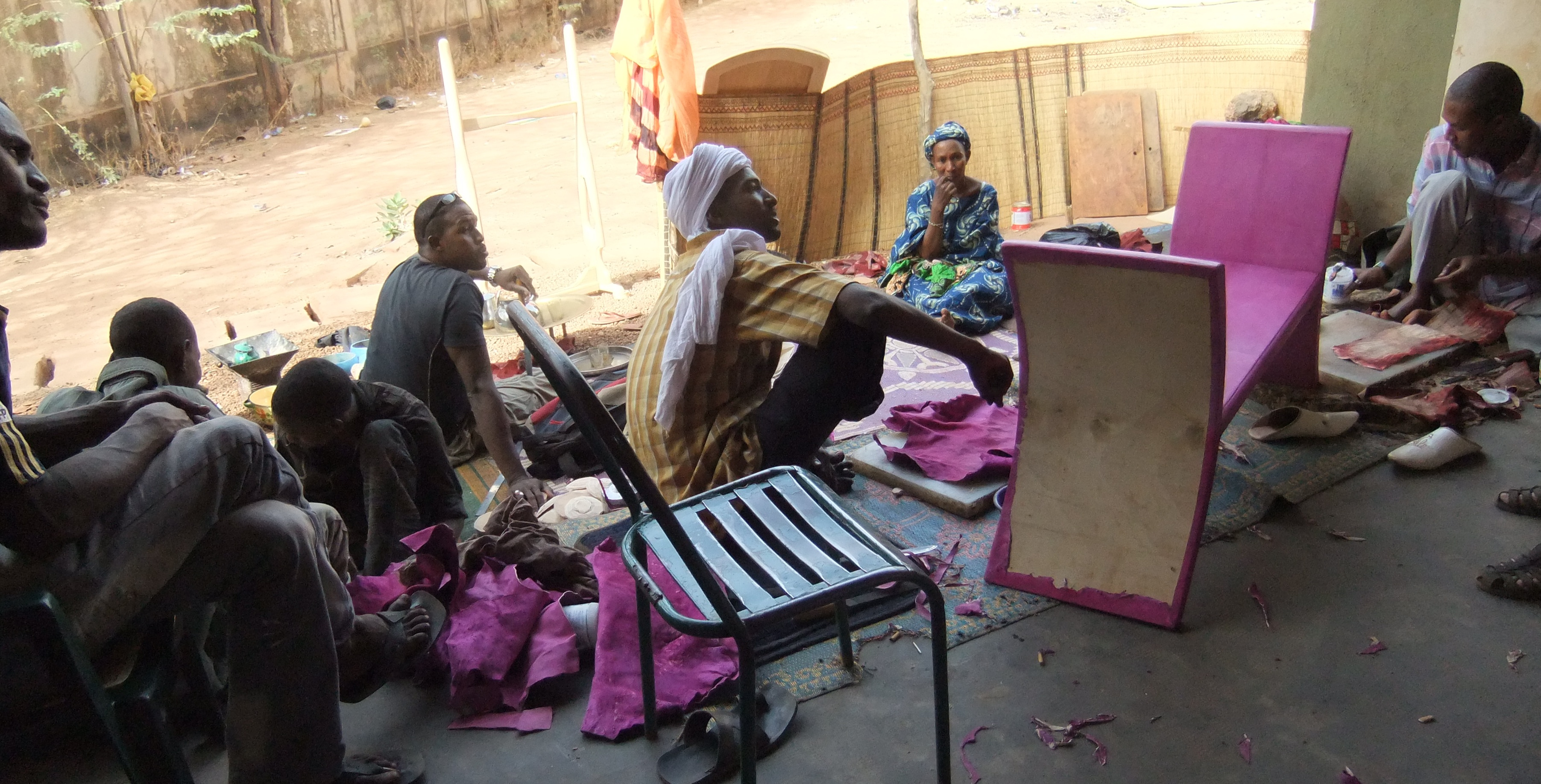 Ouagadougou, Burkina Faso This is an image of "African people at work" from Burkina Faso